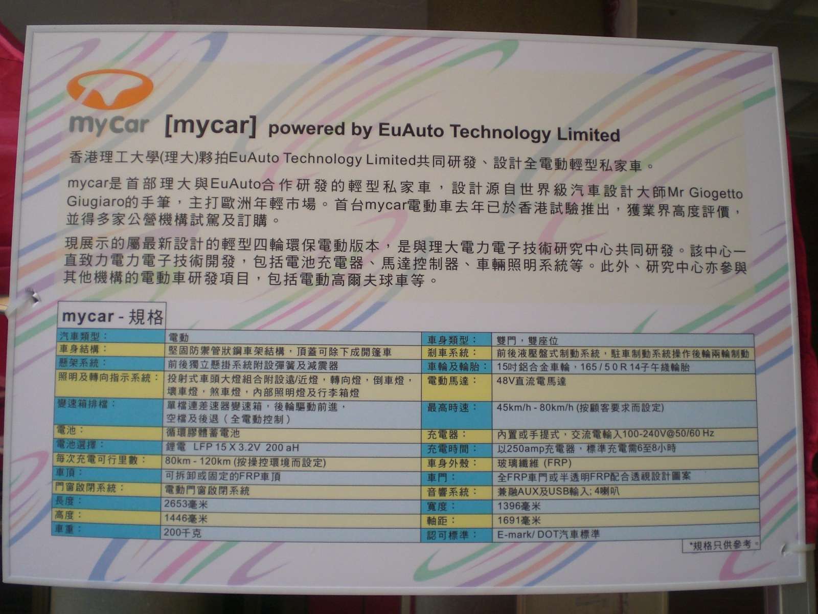 MyCar